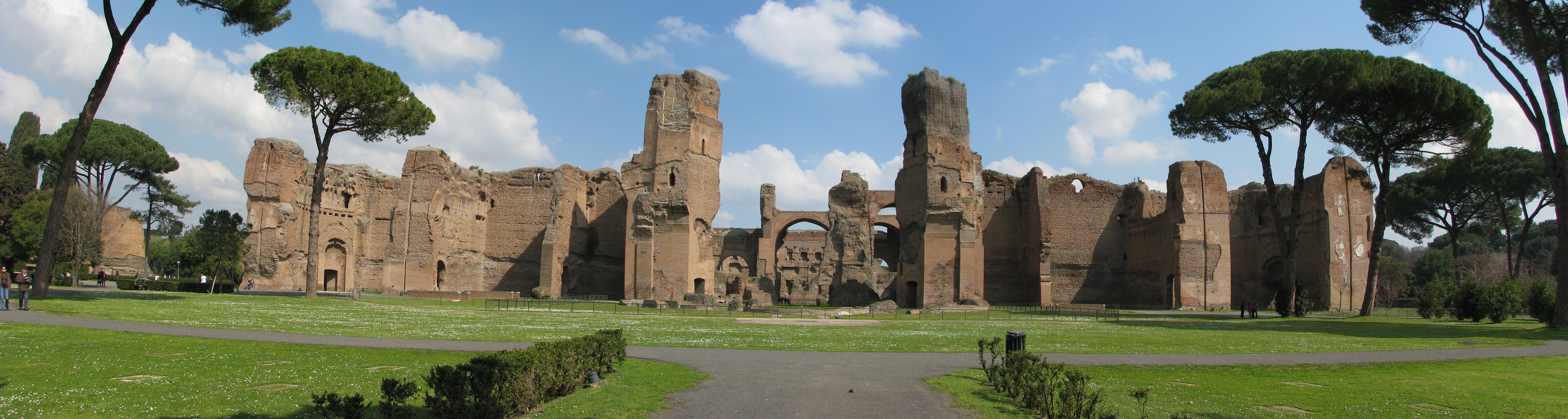 Panorama of the Thermae of Caracalla (Baths of Caracalla) in Rome